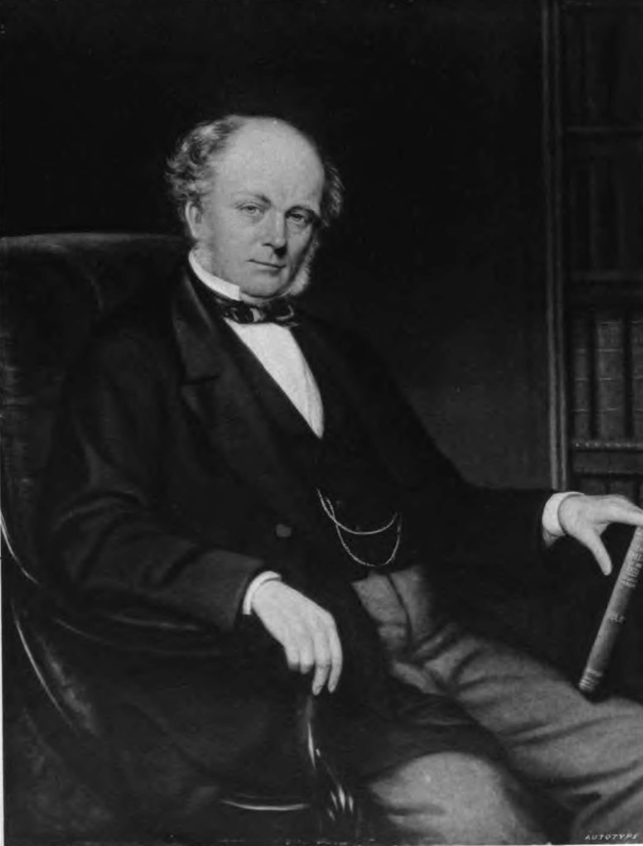 Portrait of George Harris (1809–1890), English barrister and writer.